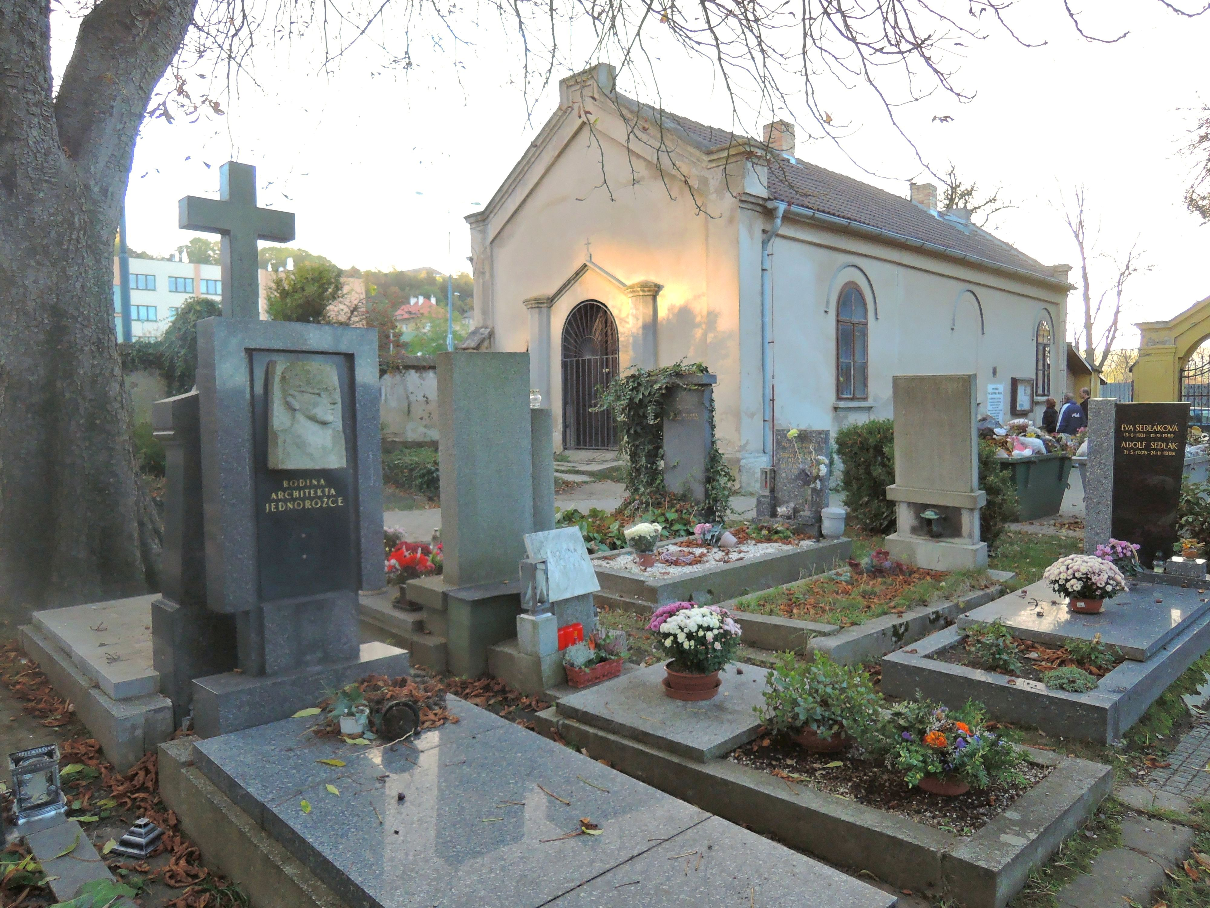 Cemetery in Střešovice, chapel with mortuary